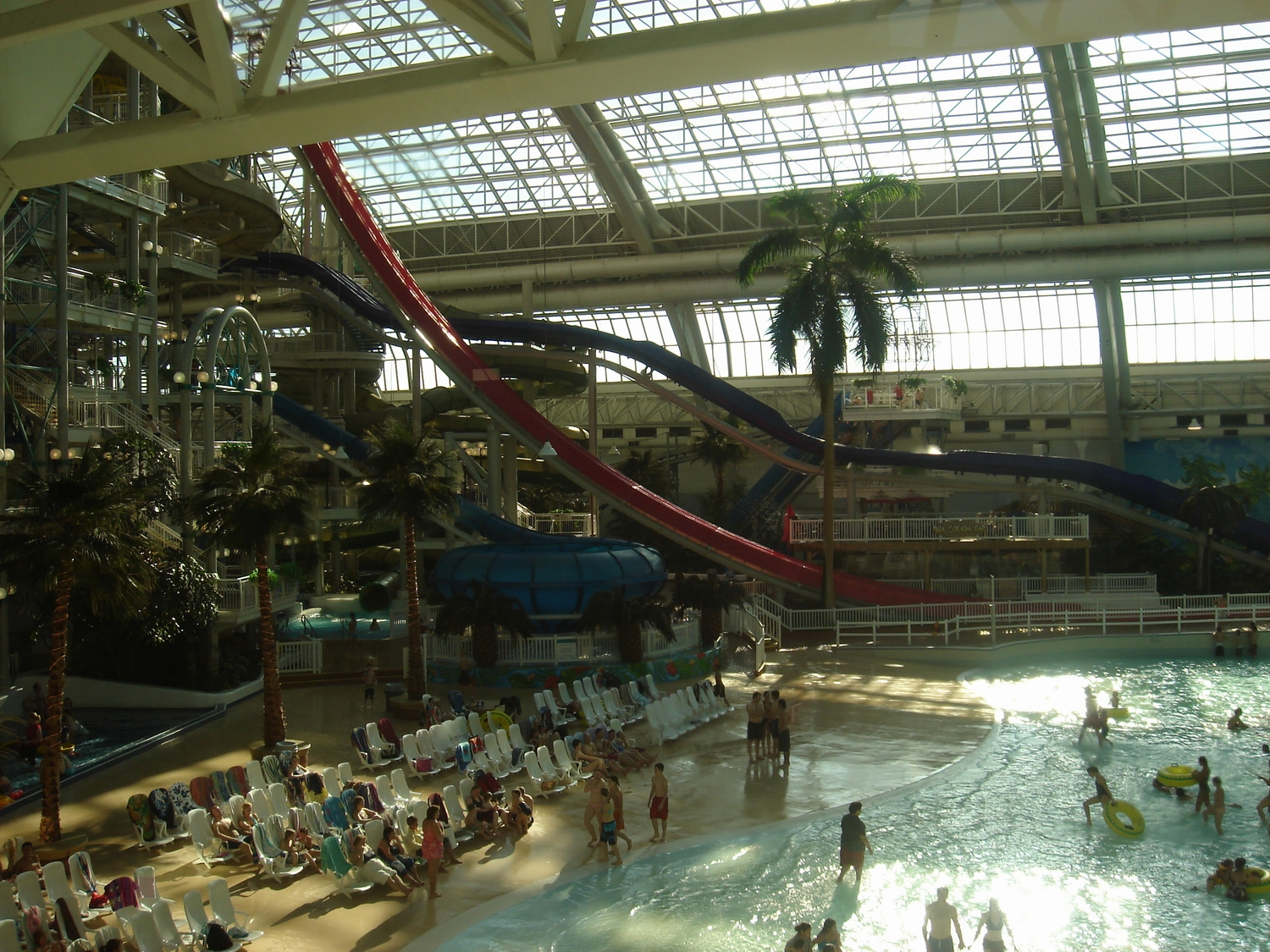 Slides at World Waterpark, West Edmonton Mall, Edmonton, Alberta, Canada